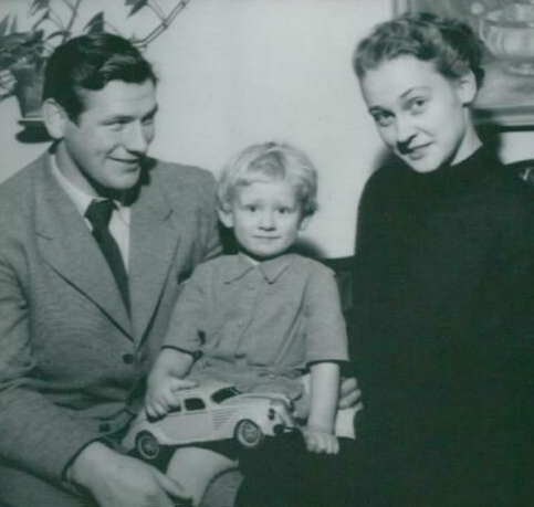 Viking Palm with family in Malmo